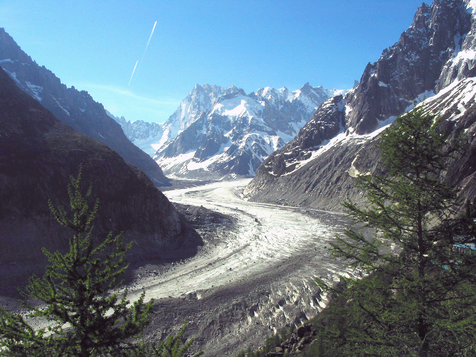 Chamonix-Mont-Blanc (Haute-Savoie - France), la Mer de Glace (the Seee of Ice).